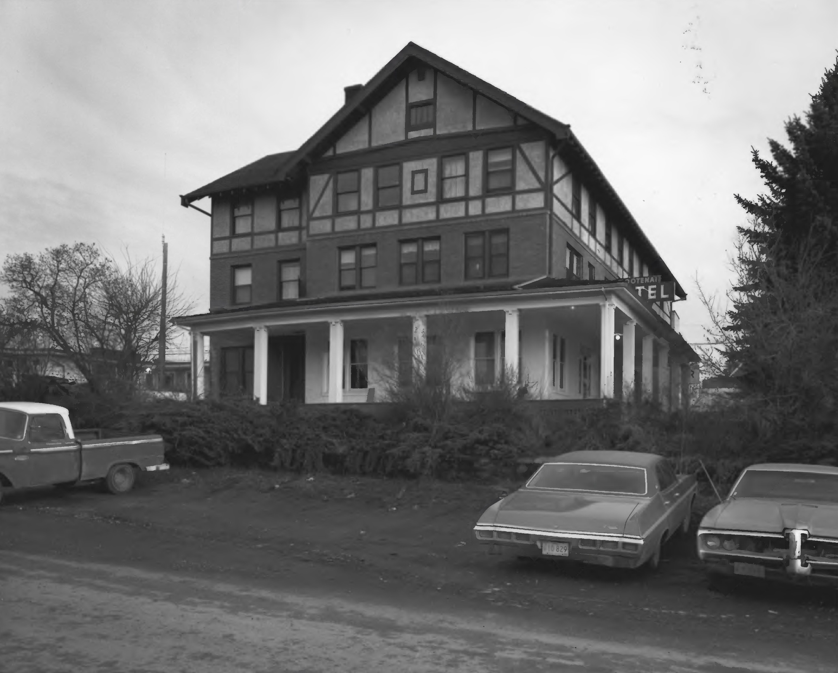 The historic Kootenai Inn (built 1910), formerly located at 130 North 9th Street in St. Maries, Idaho, United States, is listed on the US National Register of Historic Places. The inn has subsequently been destroyed.